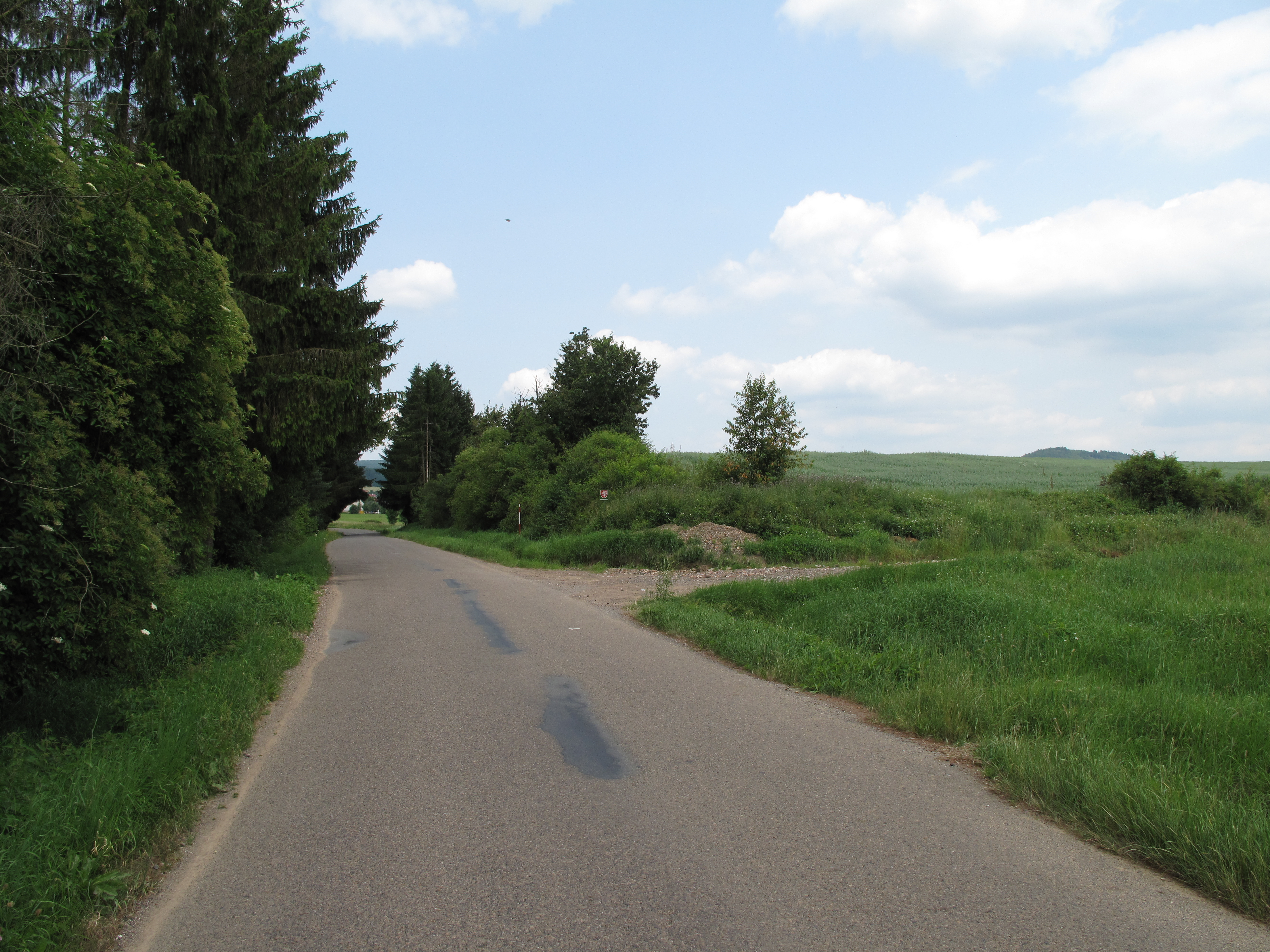 Natural monument Kašparův vrch as seen from the road, Rokycany District, Czech Republic.